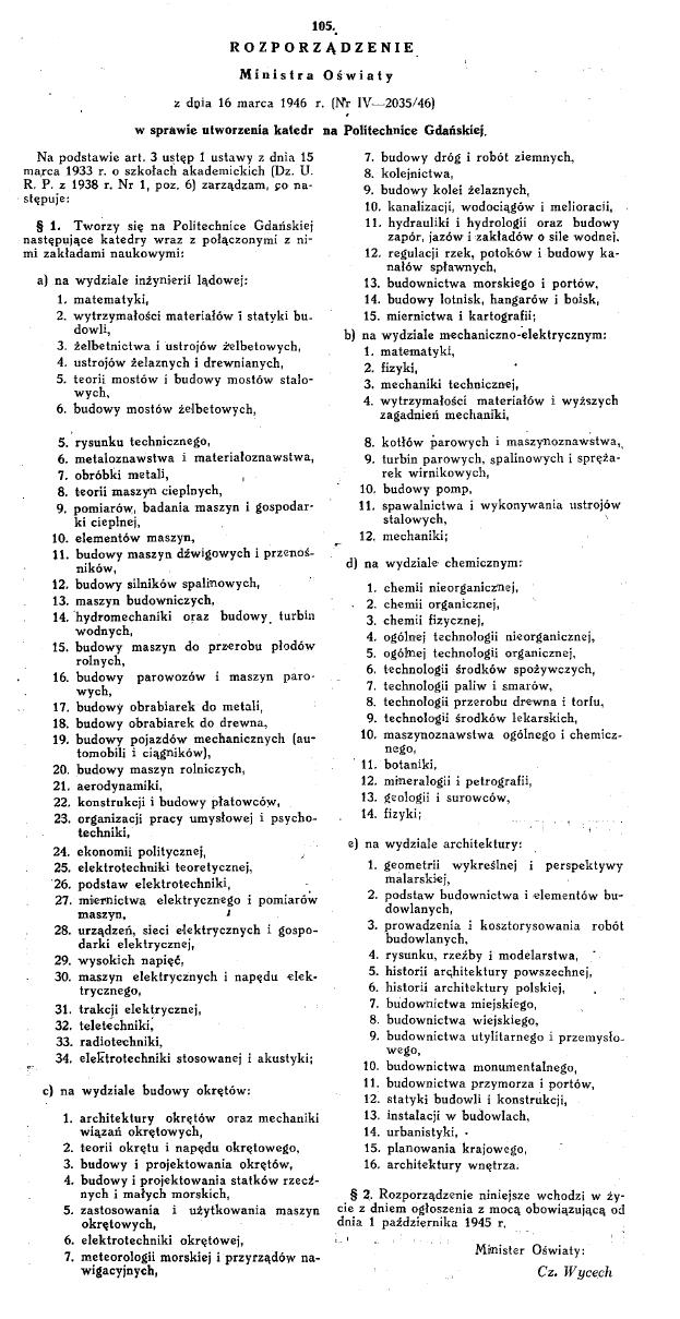 Rozporządzenie Ministra Oświaty z dn. 16 marca 1946 (Nr IV-2035/46), z mocą obowiązywania od 1 października 1945, w sprawie utworzenia katedr na Politechnice Gdańskiej. Dziennik Urzędowy Ministerstwa Oświaty nr 4, 1946, s. 145-146.